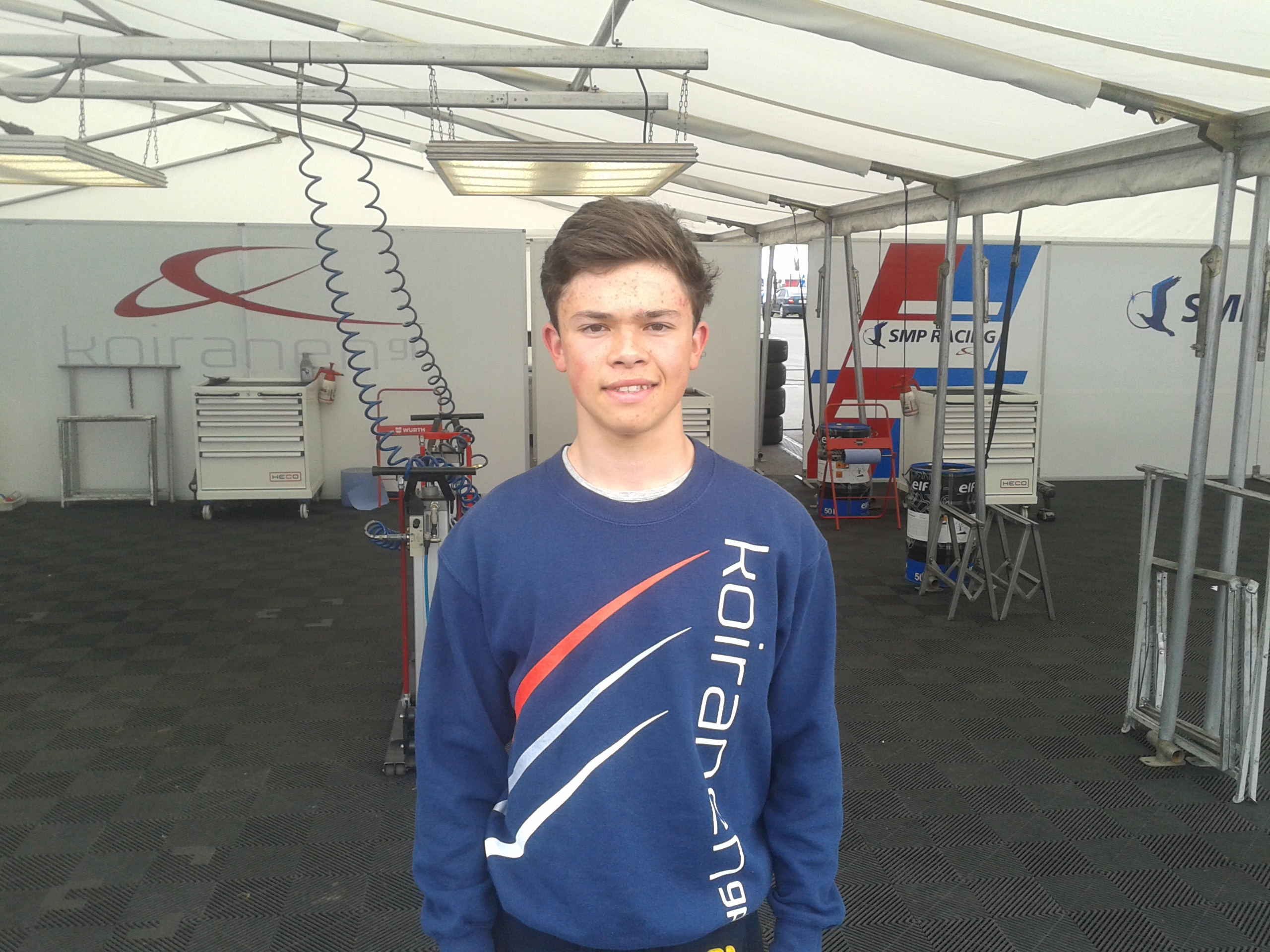 Nyck de Vries at Moscow Raceway, 22 June 2013